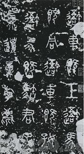 Inscriptions on Stone Drums, "石鼓文(Shiguwen)".